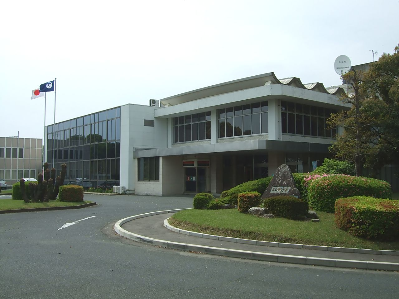 Hisayama Town Office